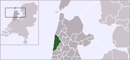 Locator map of Dutch municipalities in Noord-Holland (LocatieBergenNH.png)